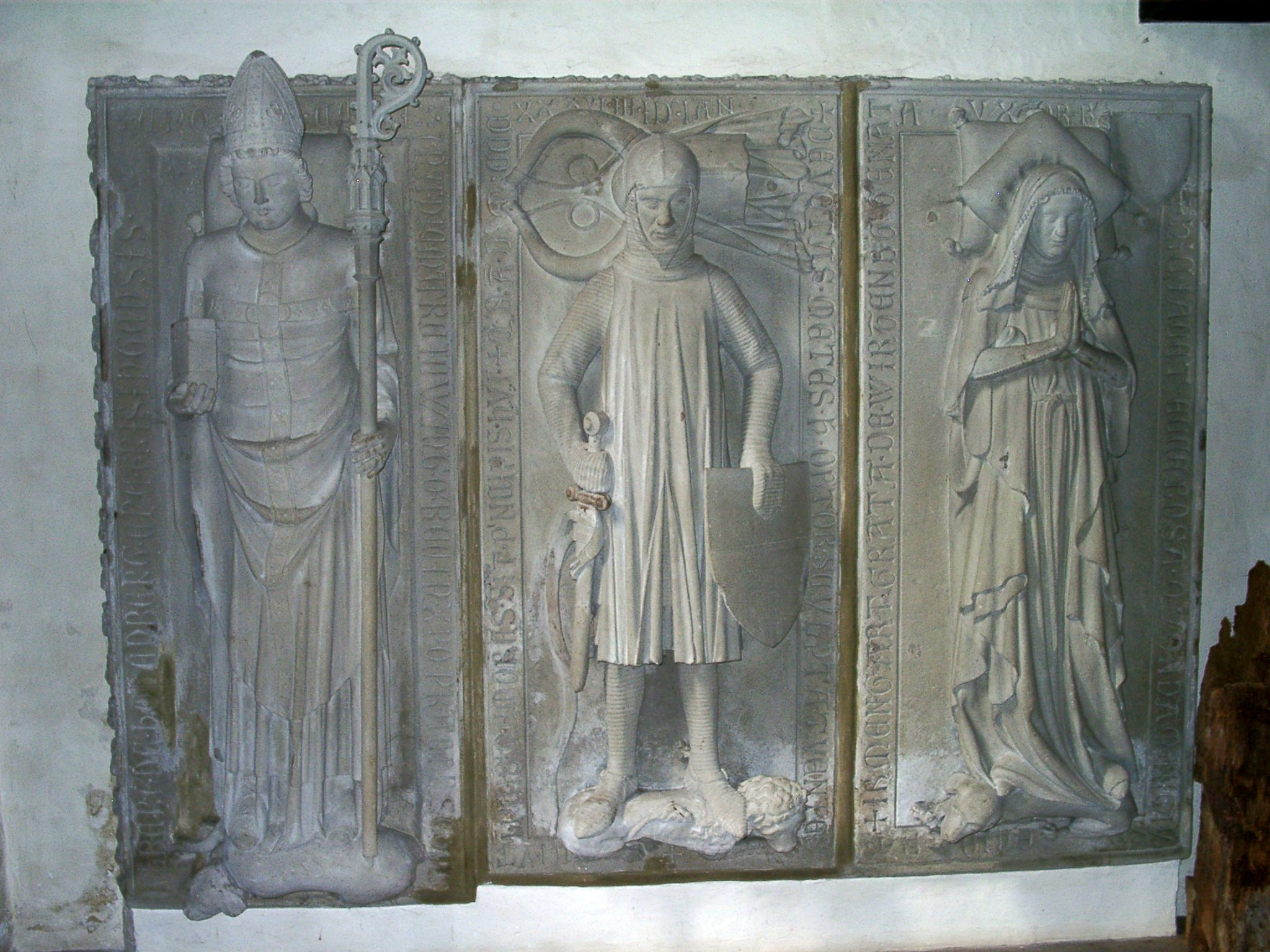 Tomb slabs of the Counts of Hohenberg in the collegiate church Saint Maurice in Rottenburg am Neckar, district of Tübingen (Baden-Württemberg / Germany). Rightwards from the left side: Albert II. von Hohenberg (1303-1359), Count of Hohenberg, Bishop of Freising, son of Rudolf I. from the first marriage Rudolf I. von Hohenberg († 13 January 1336), Count of Hohenberg Irmengard von Württemberg († 17 May 1329), Countess of Hohenberg, second wife of Rudolf I.